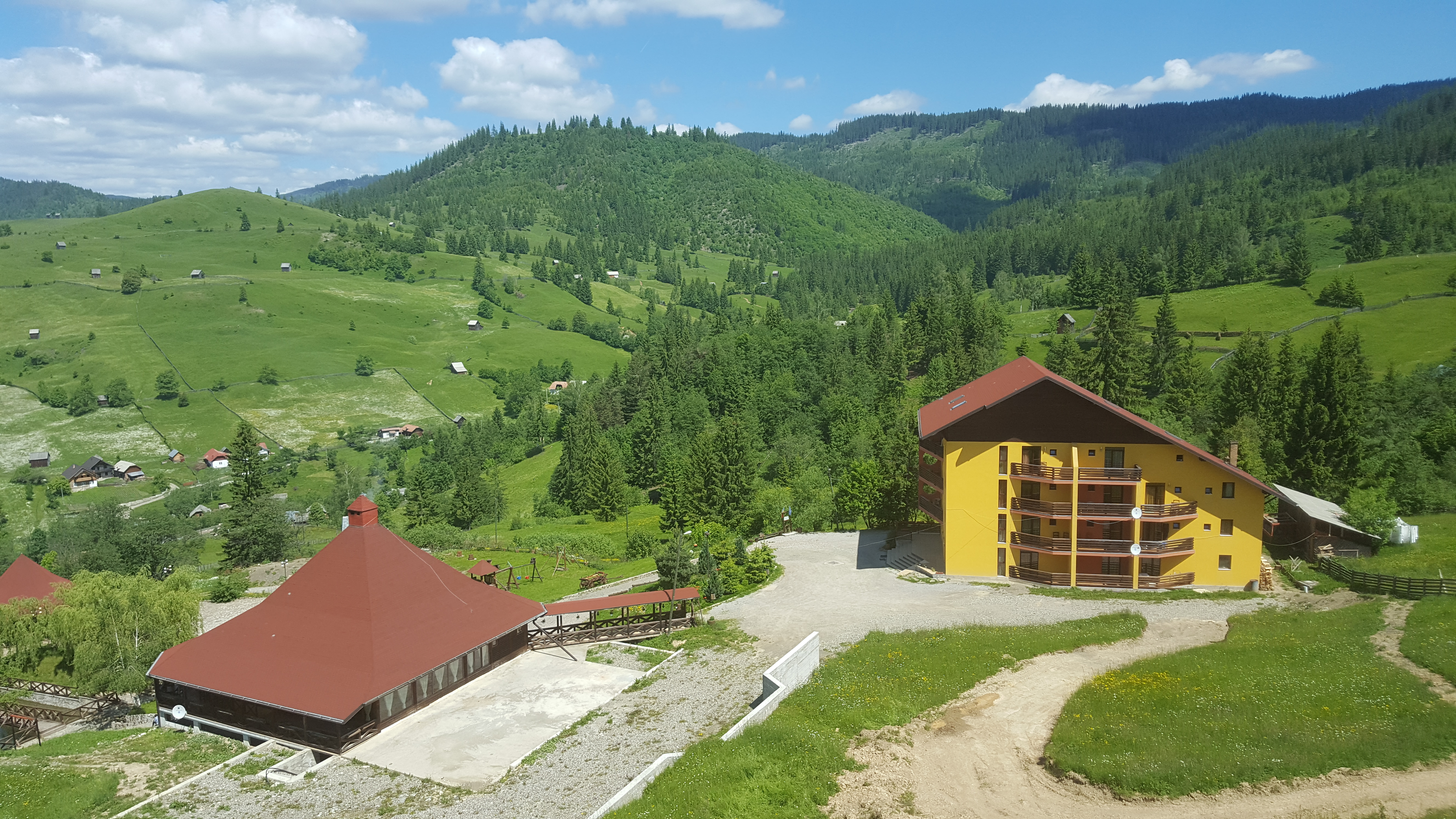 Landscape seen from a viewing point outside Sadova, Romania. A hotel ("Pensiunea Steaua Nordului") can be seen at the bottom.